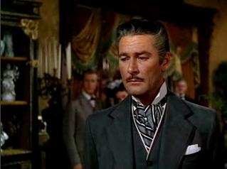 Cropped screenshot of Errol Flynn from the film That Forsyte Woman